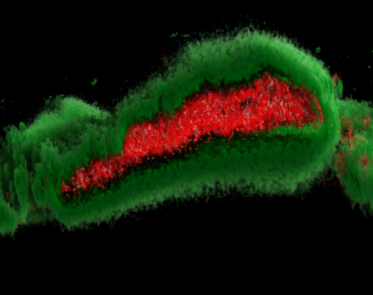 3D rendering of a S. mutans colony. Stack of images obtained with a Leica SP2 CLSM, 3D rendering done using Drishti